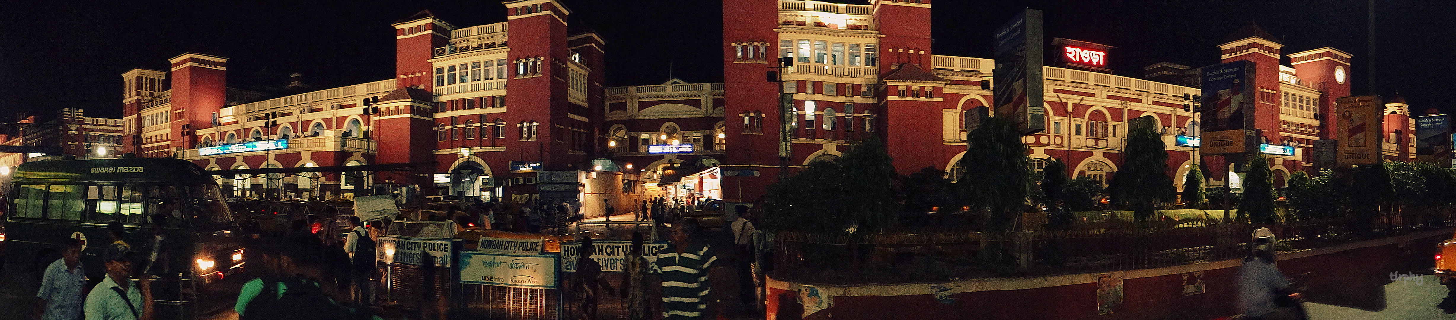 This is the night view of the Full Howrah Railway Station in a single frame.